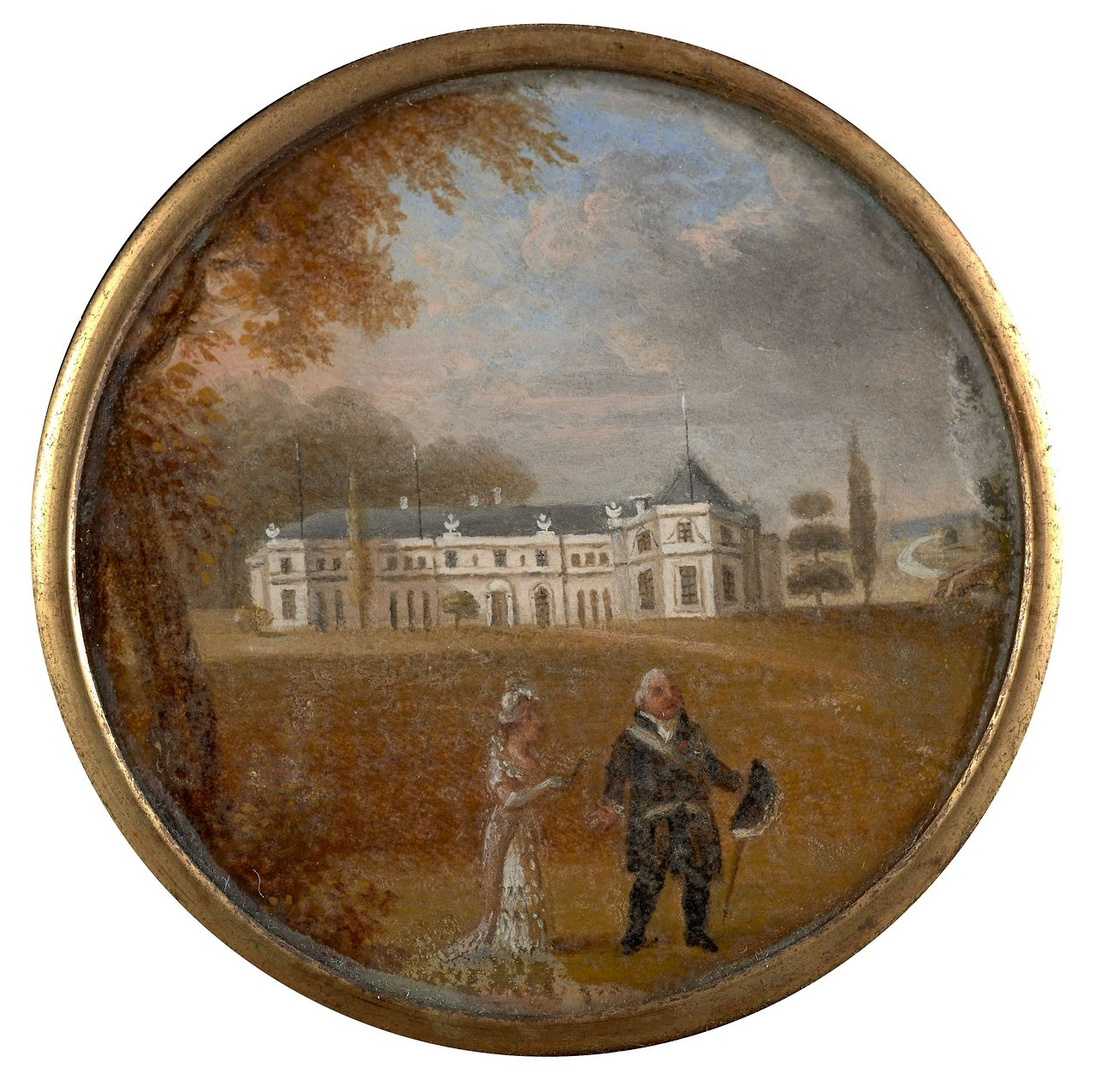 A miniature depicting Louis XVIII of France in exile taking a walk with Madame, duchess of Angoulême in the grounds of his residence Hartwell House. It was given by the duchess of Berry to her lady-in-waiting the duchess of Reggio.